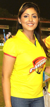 Madhu Shalini, Sonia Agarwal and Varalakshmi Sarathumar at CCL3